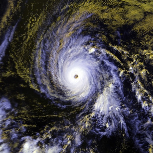 Hurricane Estelle on July 20 at approximately 2338 UTC. This image was produced from data from NOAA-9, provided by NOAA.